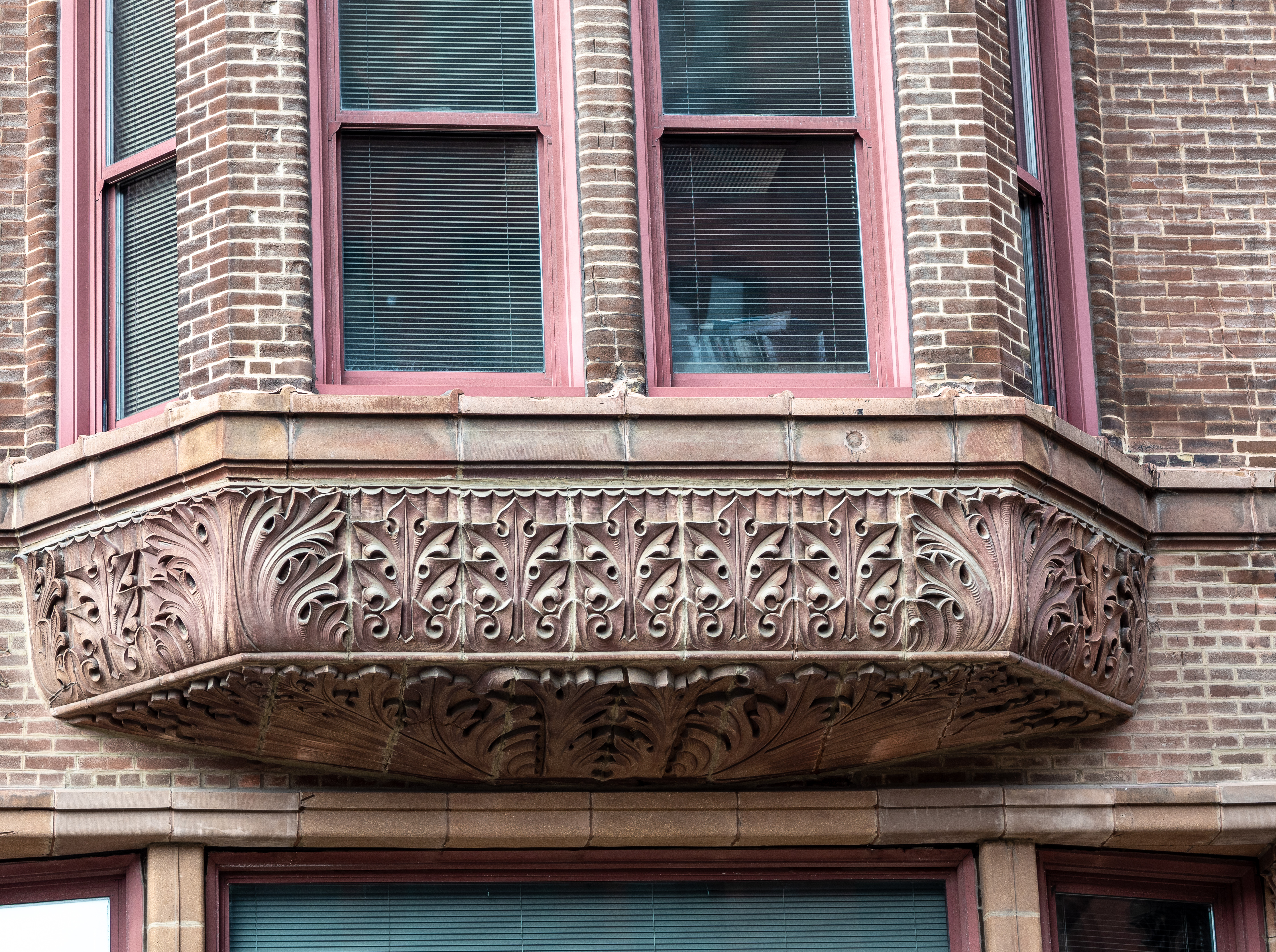 Pontiac Building, Chicago, IL, USA, window detail